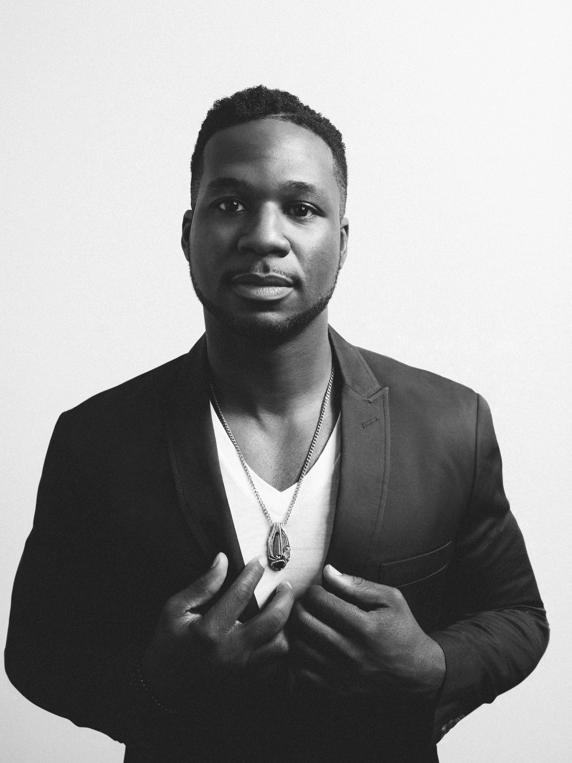 Photo Credit: Shane McCauley